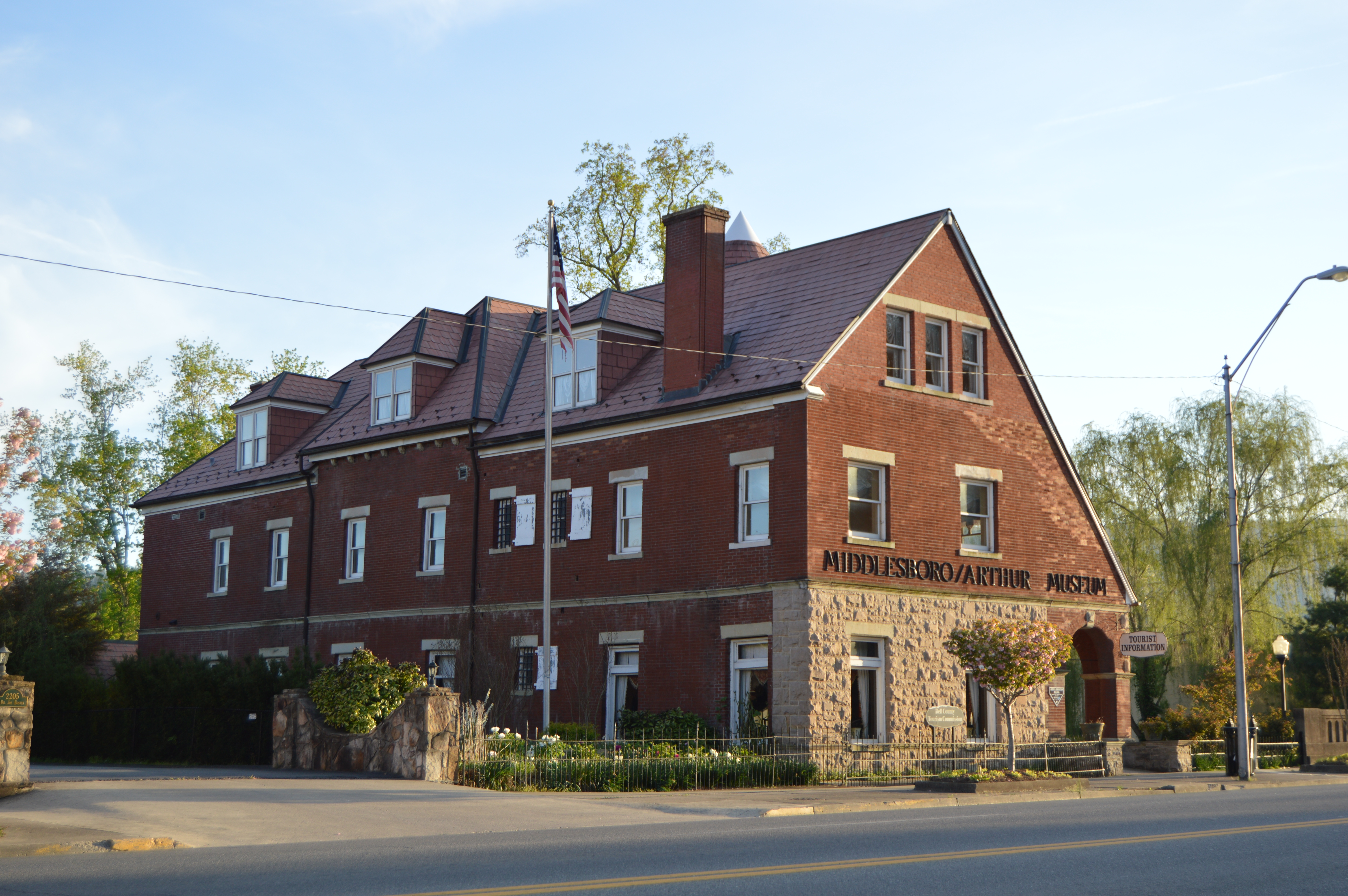 Front and eastern side of the American Association, Limited, Office Building, located at 2215 Cumberland Avenue (Kentucky Route 74) in Middlesboro, Kentucky, United States. Built in 1890, it is listed on the National Register of Historic Places.